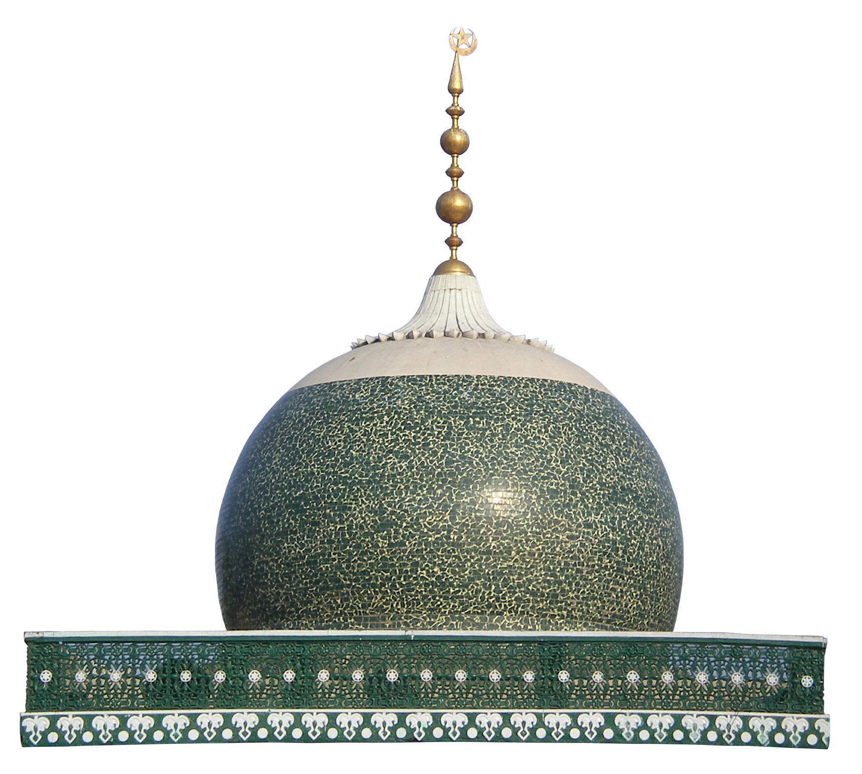 The dome of the shrine of Hazrat Mehboob-e-Zaat Syed Ahmad Hussain Gilani situated at Darbar-e-Aliya Mundair Sharif Syedan, Sialkot